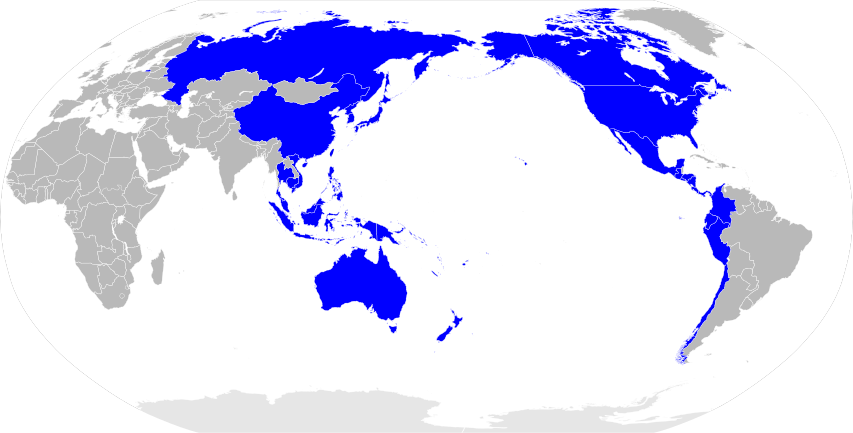 Map of the Pacific Rim.